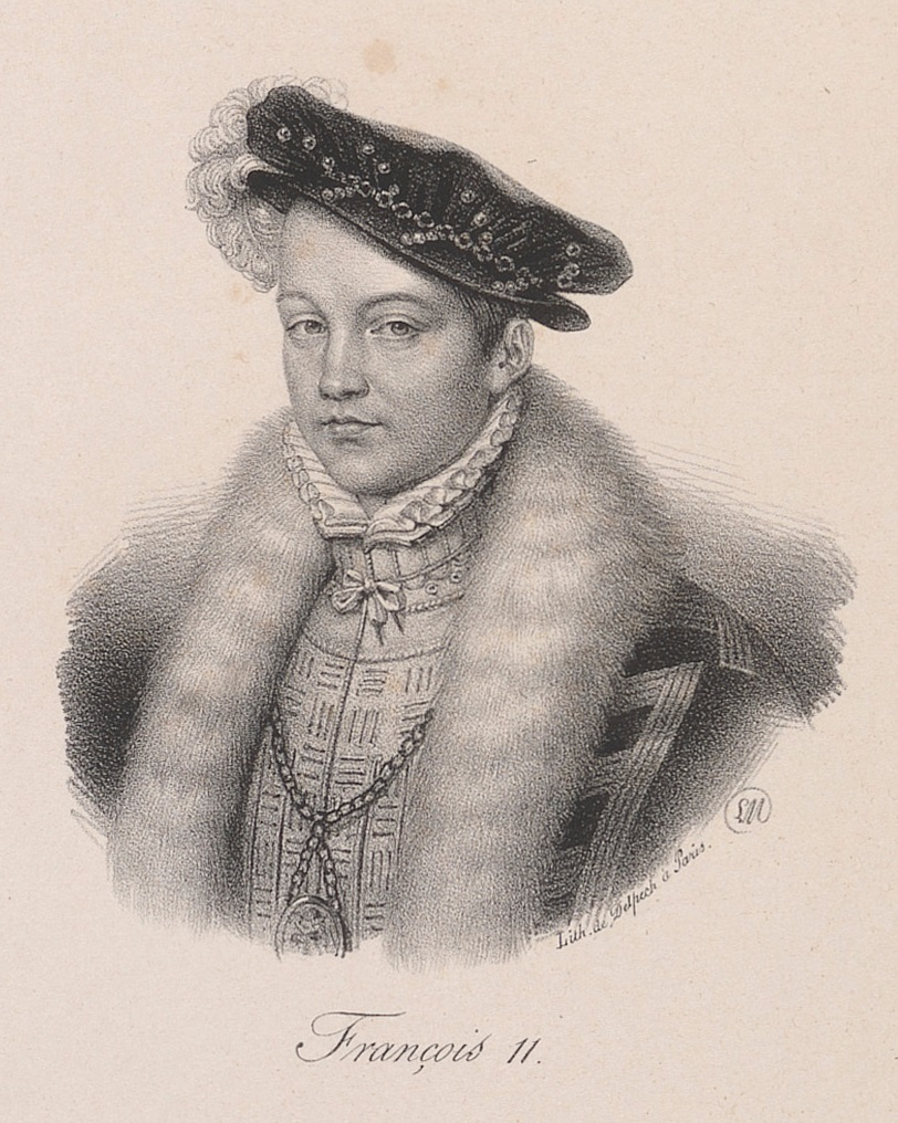 Francis II of France (1544-1560)